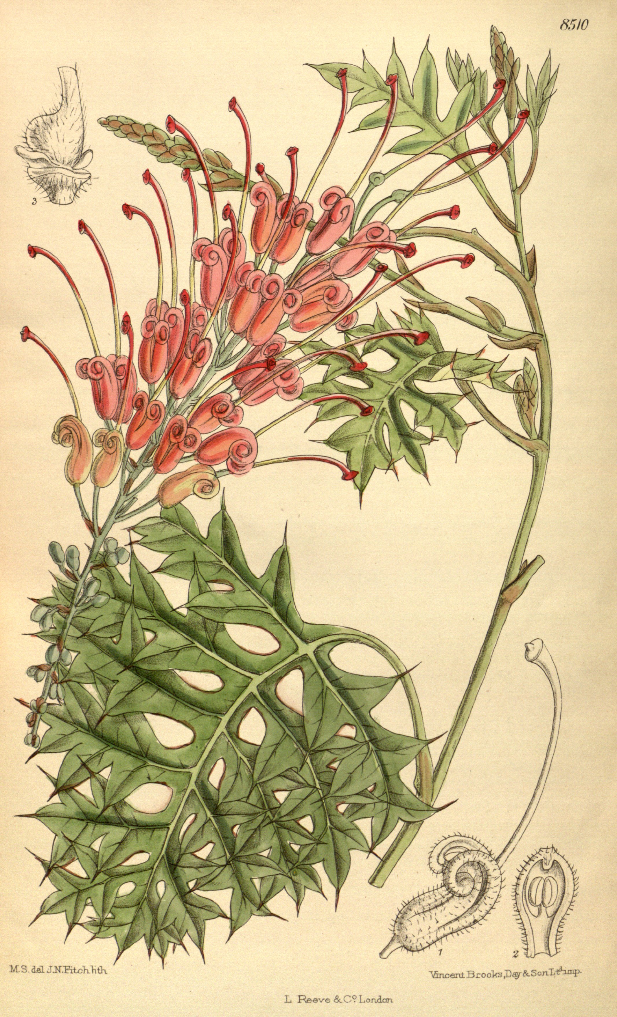 Grevillea bipinnatifida, Proteaceae